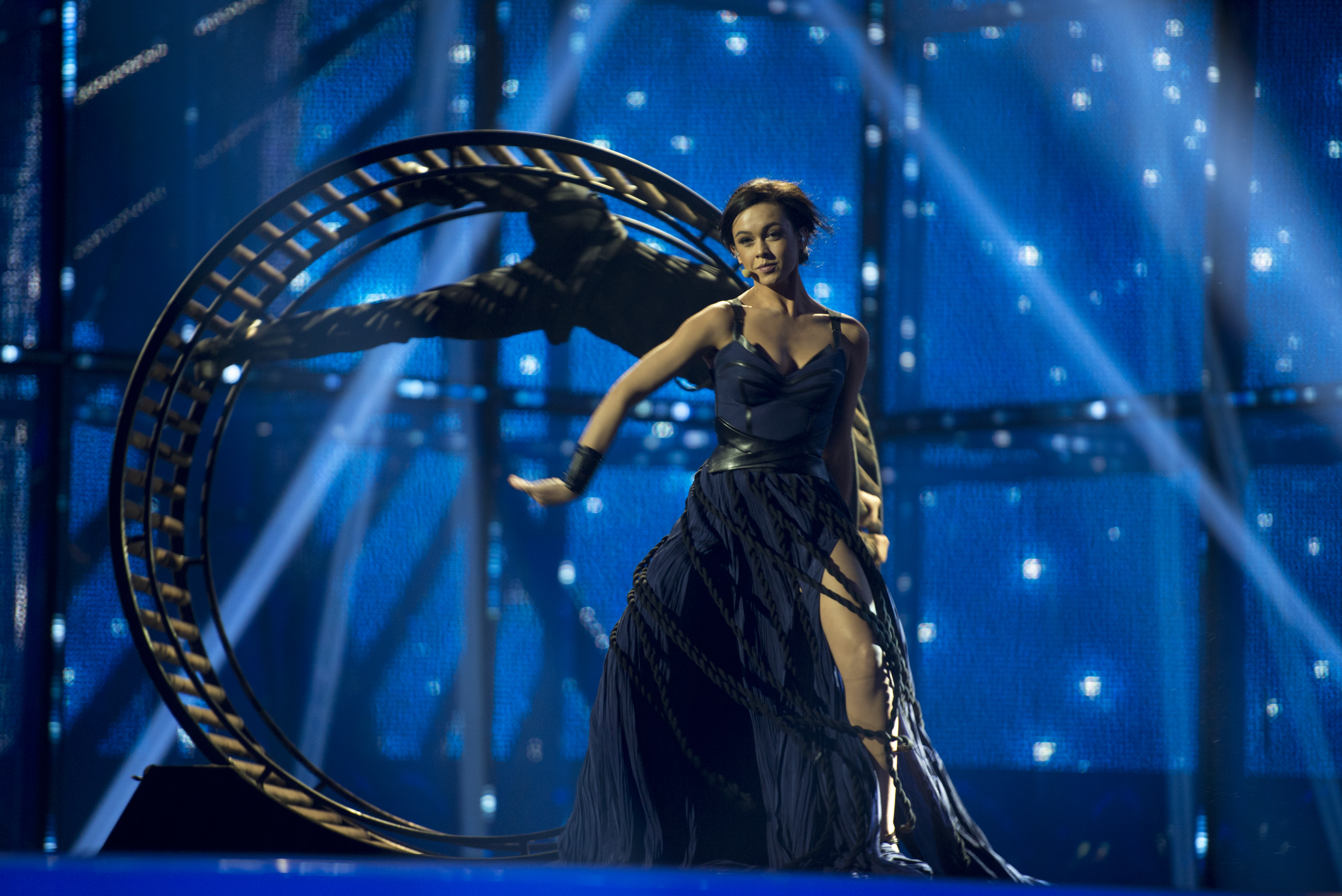 Mariya Yaremchuk representing Ukraine with the song "Tick-Tock" during the first dress rehearsal of the first semi final of the Eurovision Song Contest 2014 Copenhagen. (Help translate this text)